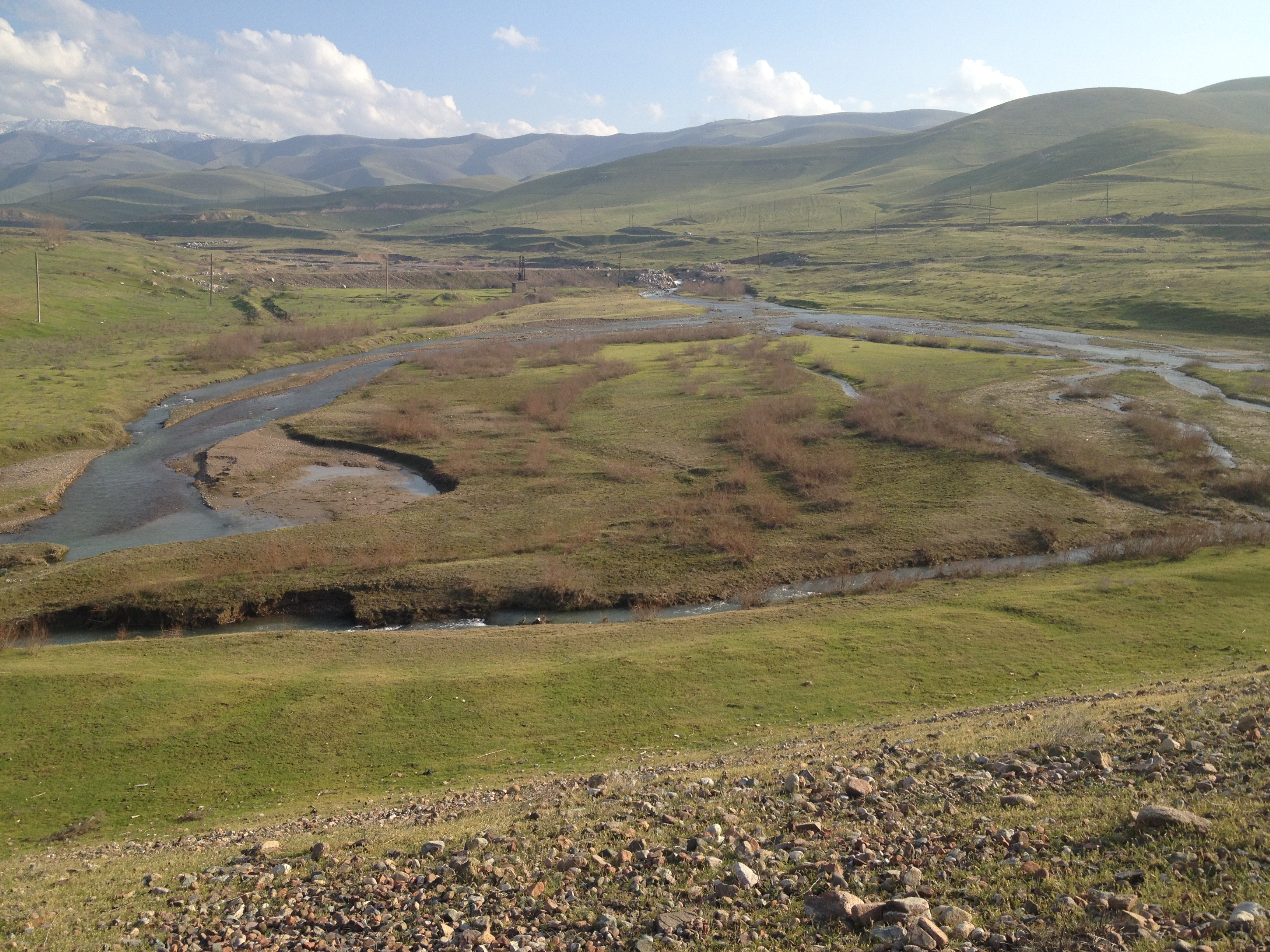 Anabranches of Saukbulak (head race of Saukbulak dam)